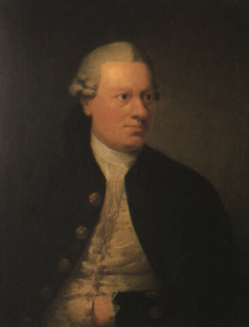 Hans Didrick Brinck-Seidelin